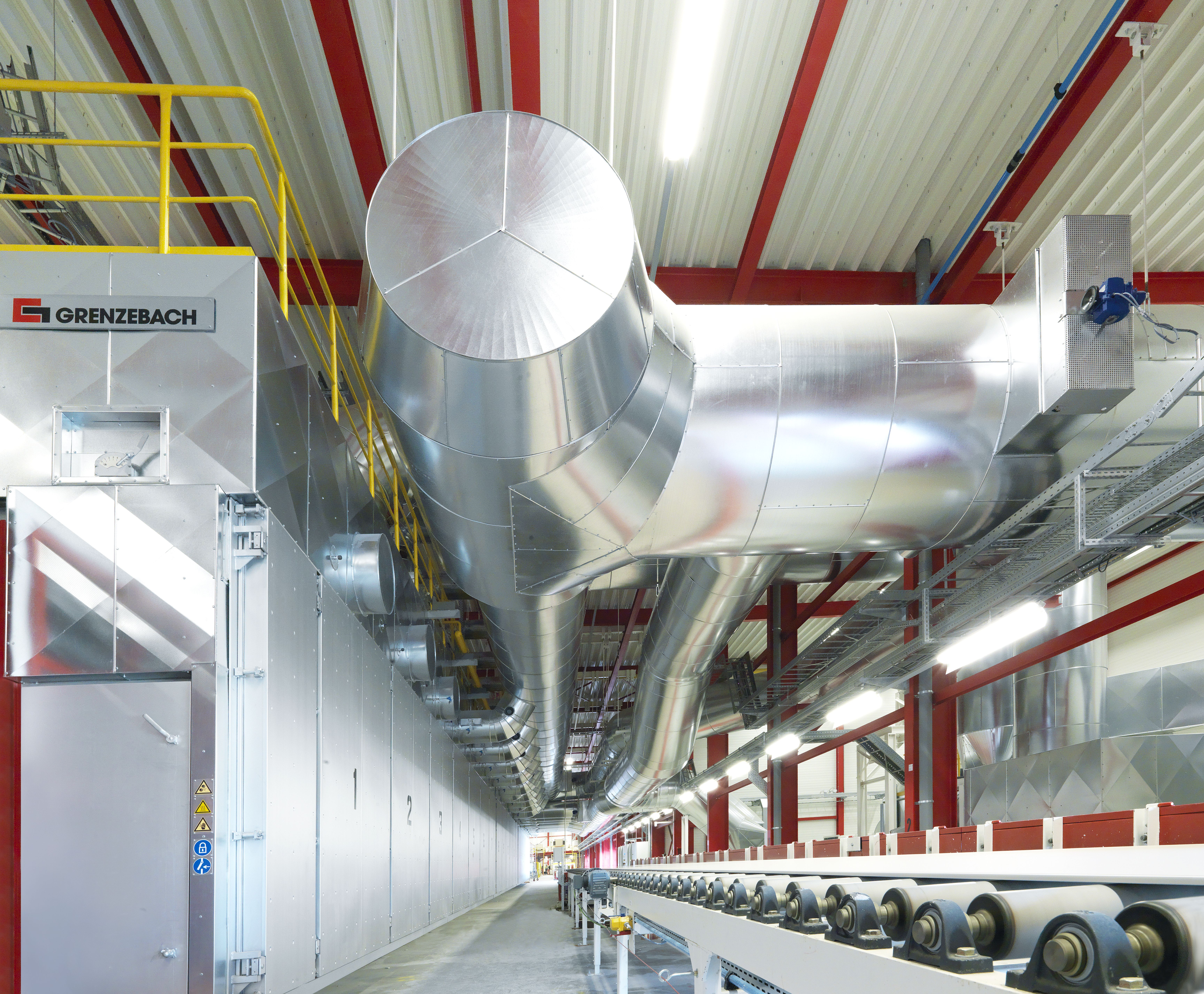 Grenzebach delivers turn-key manufacturing lines for gypsum plasterboards – from the analysis of the raw material in our own laboratory to the finished wallboard. Our turn-key scope includes buildings, infrastructure and logistics. Safety in operation, low operating costs and optimum energy efficiency combined with the highest quality standards characterize all our equipment.